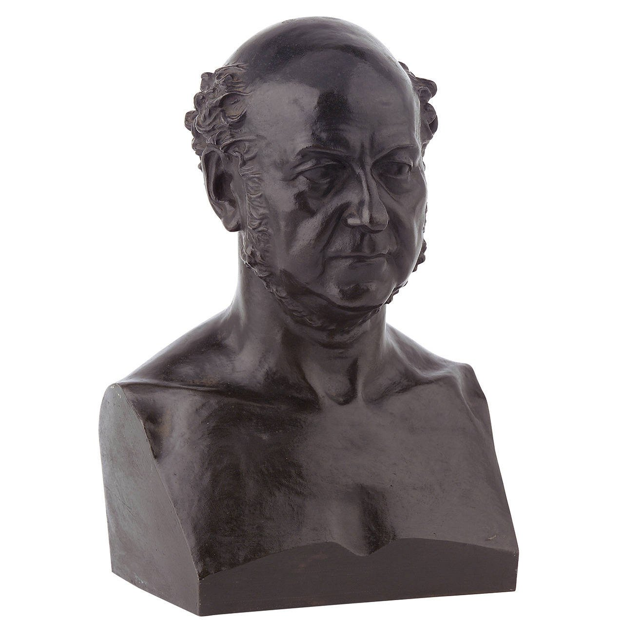 Prosper Goubaux (1795–1859), French educator.